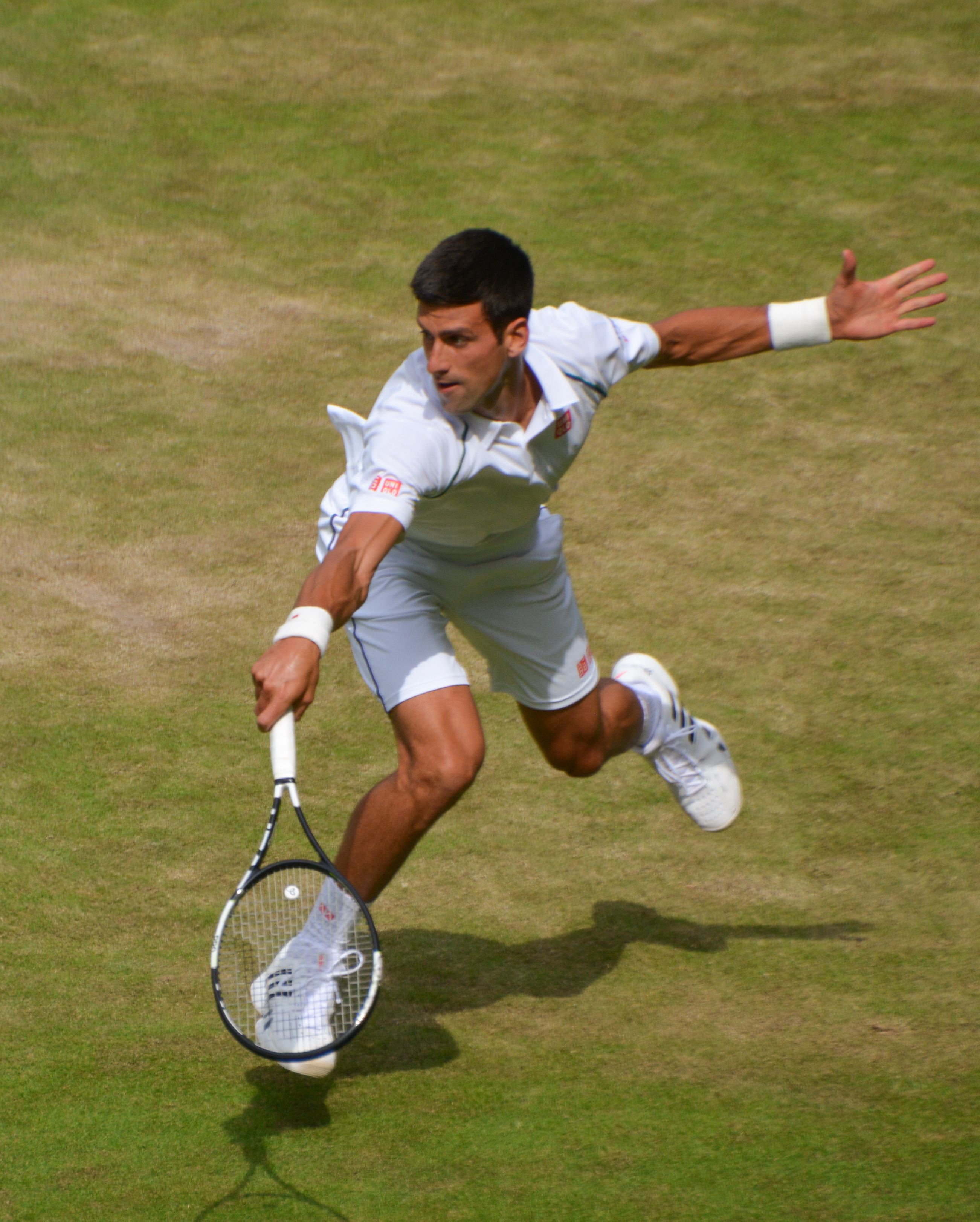 Novak Djokovic beat Bernard Tomic 6-3, 6-3, 6-3 on Centre Court. Day 5 of Wimbledon 2015.